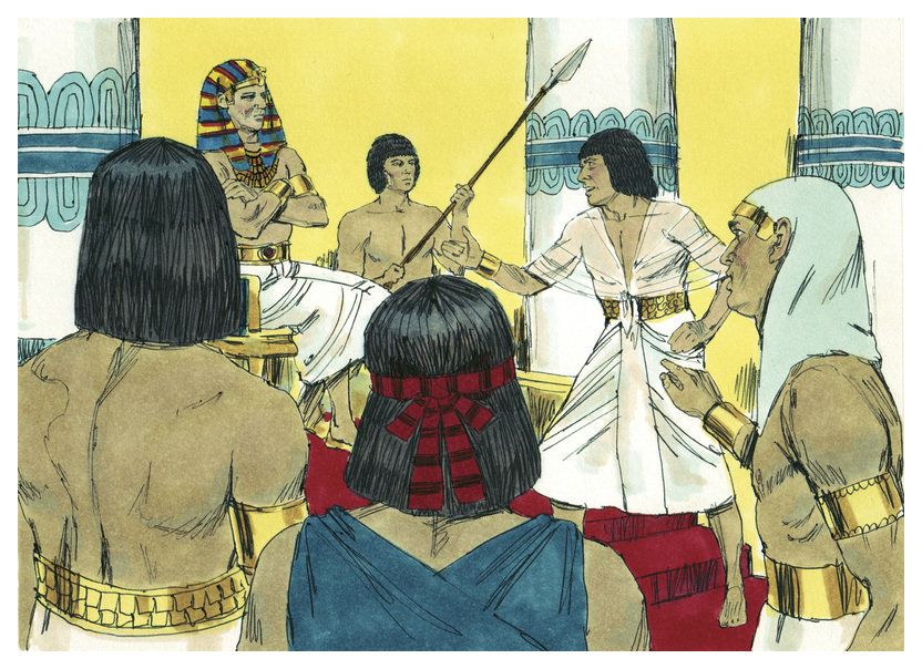 Biblical illustration of Book of Exodus Chapter 15